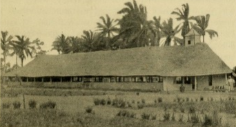 The Lapsley Memorial Church, in Inbaje, of the Congo-Balolo Mission. "Presbyterian Pioneers in Congo", published in 1917.